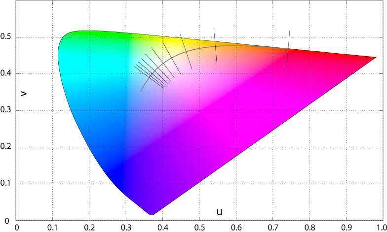 Judd's UCS using the 1931 standard observer and second radiation constant c2=1.4388